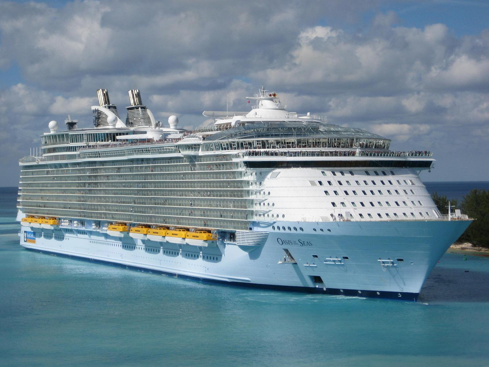 Oasis of the Seas entering the port at Nassau, Bahamas in January 2010.